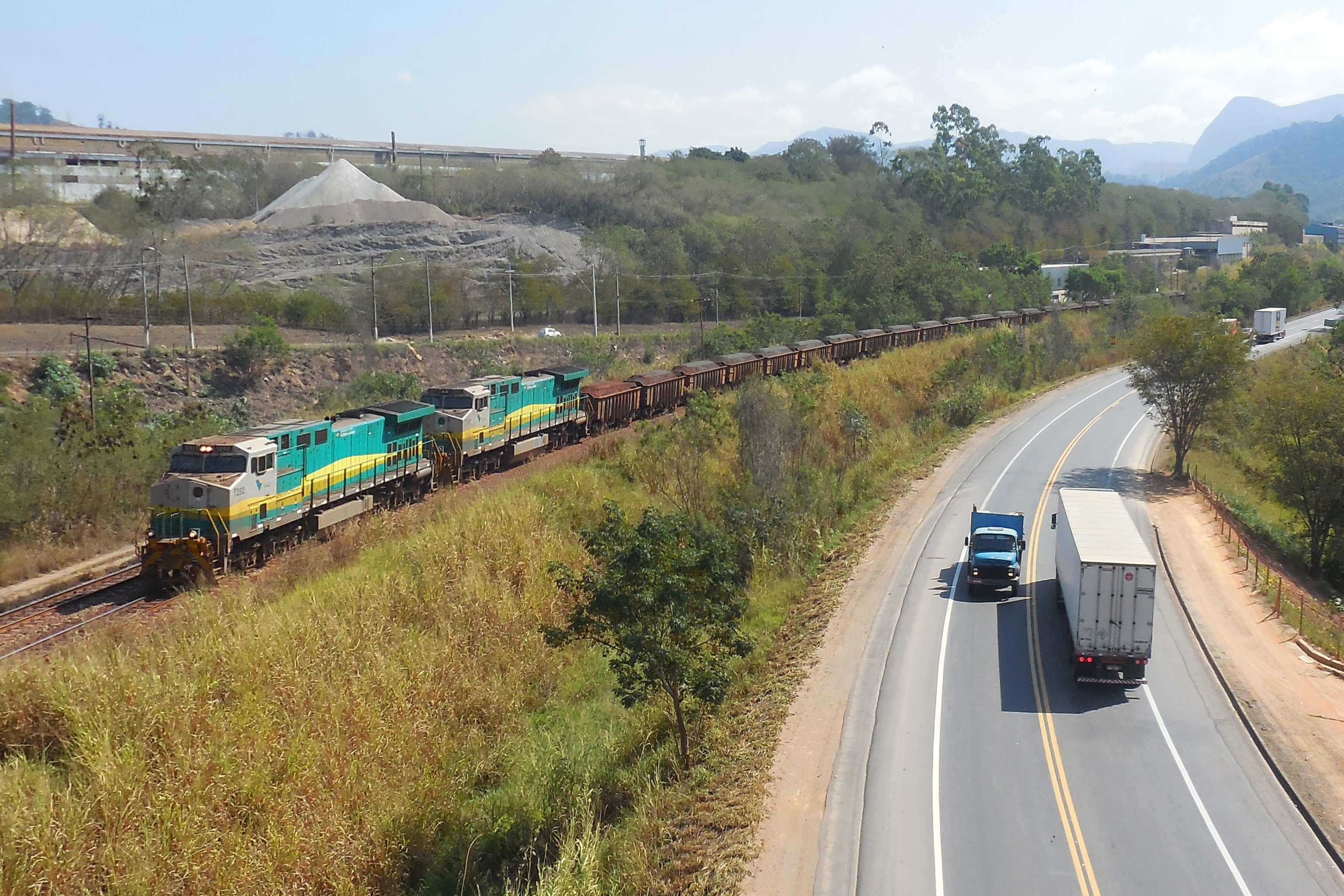 Vale's train carrying iron ore by Estrada de Ferro Vitória a Minas (Vitória a Minas railway) beside the BR-381, in Timóteo, Minas Gerais, Brazil.